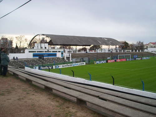 Belvedere LFC